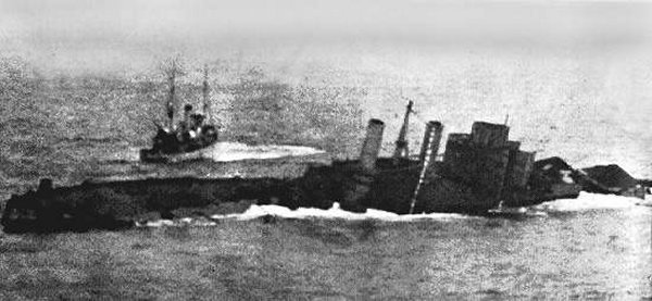 Photograph of the uncompleted USS Washington being sunk by gunfire off the Virginia Capes, USA.